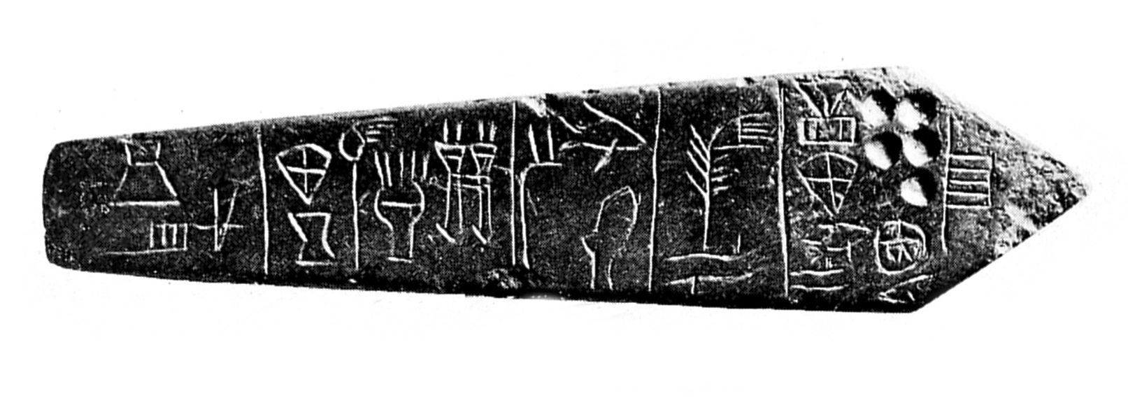 Blau Monument British Museum 86261 Proto-cuneiform characters